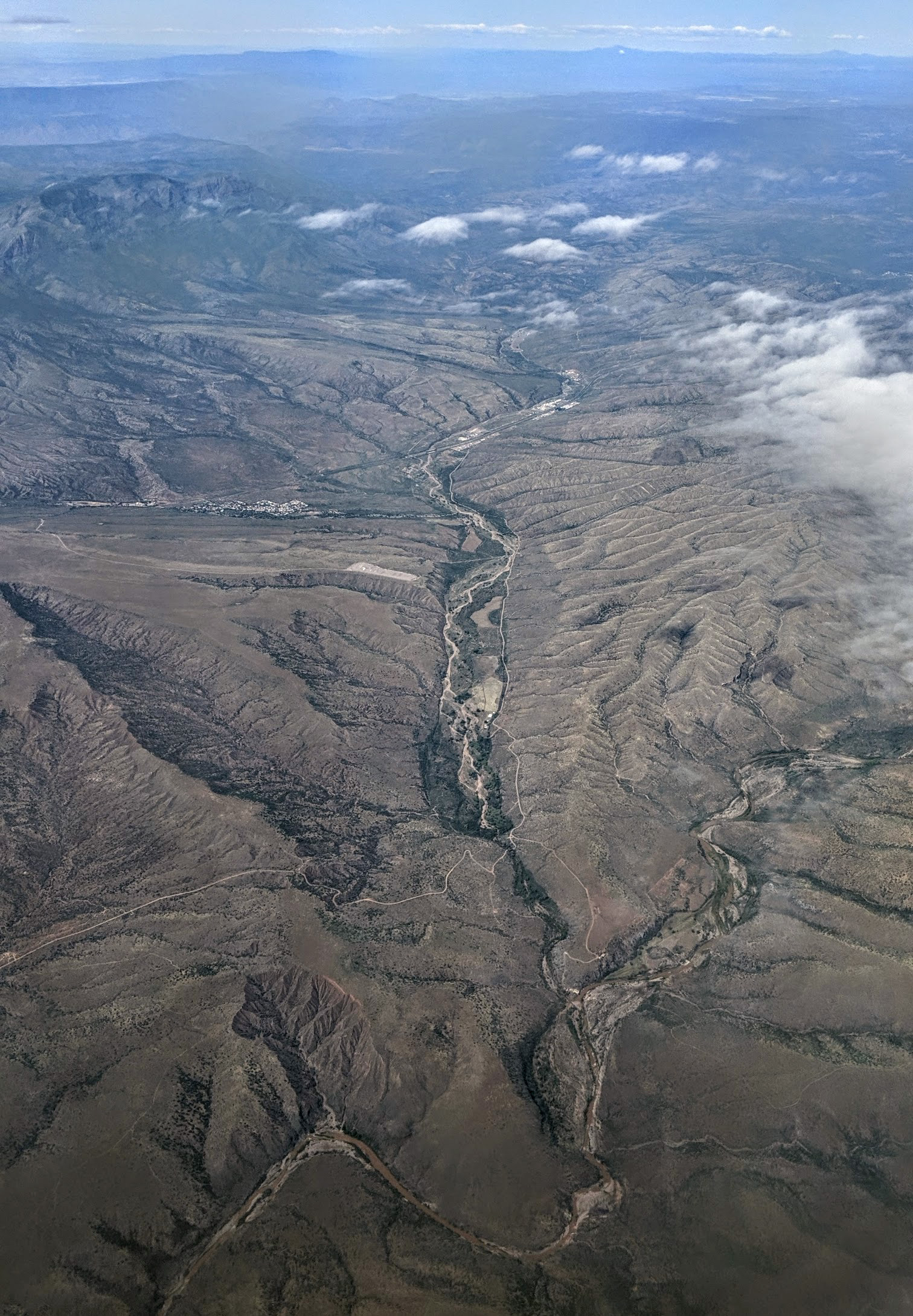 Aerial view from the southeast of Rye Creek (center) and Tonto Creek (right) in Arizona. Rye, Arizona, and Arizona Route 87 are at the far end of Rye Creek (near the top). Gisela, Arizona, is just outside the picture (to the right) on Tonto Creek.